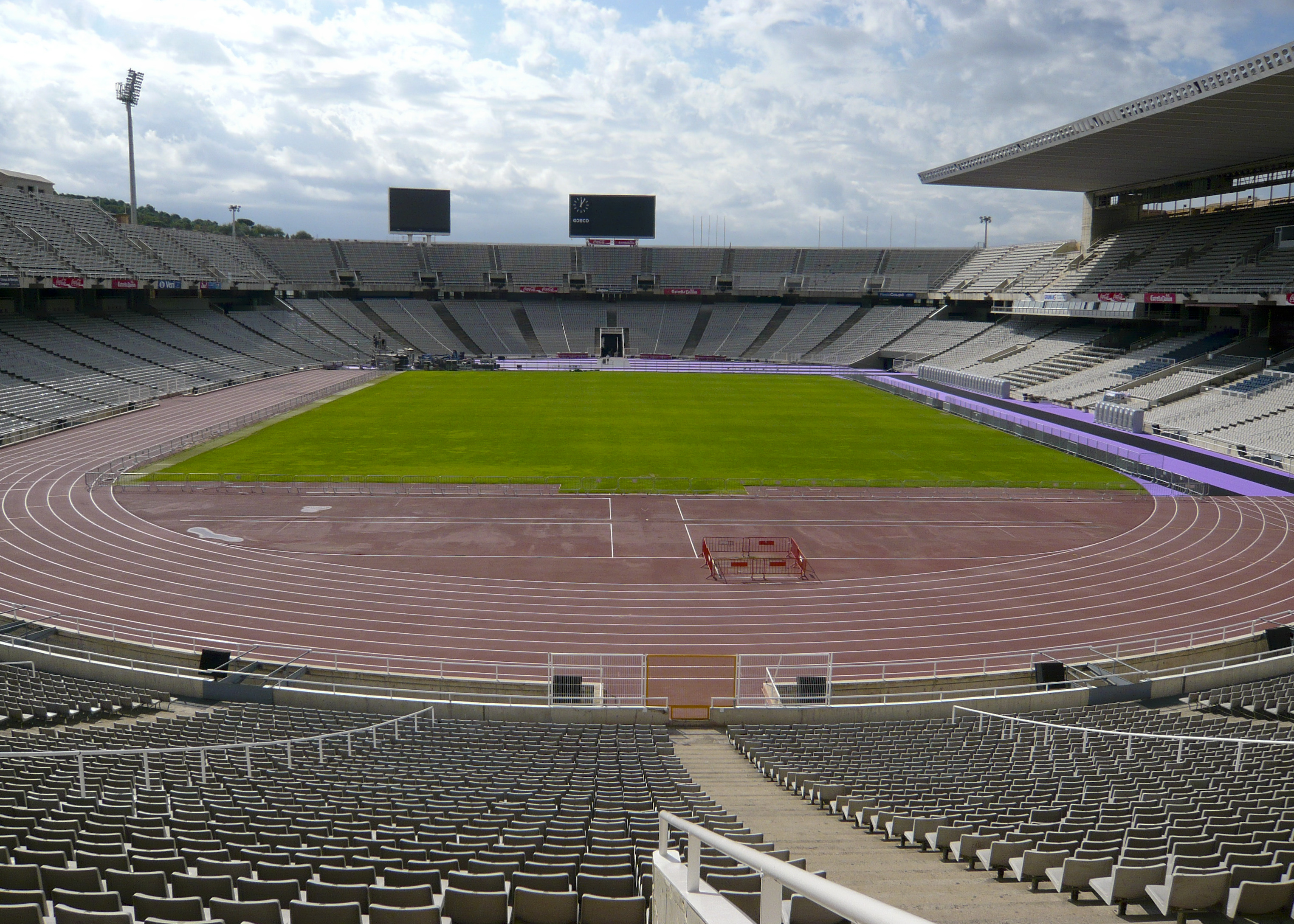 Olympic Stadium